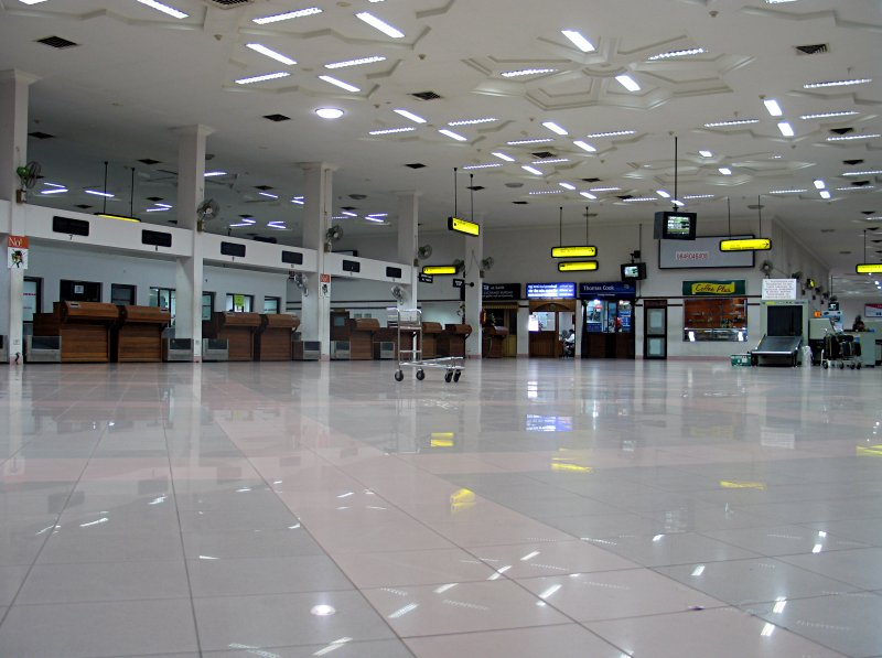 Check-in counters at Kochi International Airport